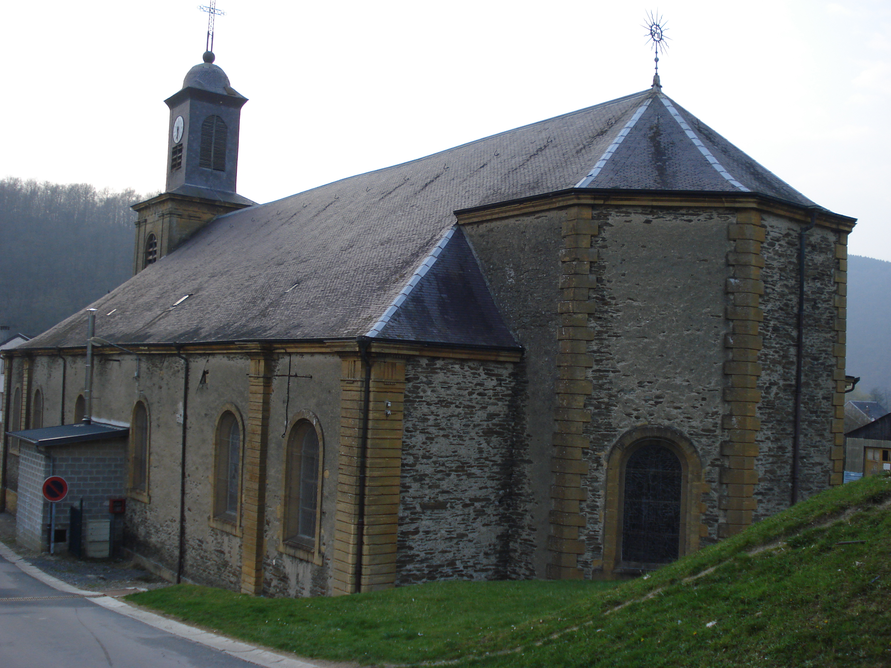 Les Hautes-Rivières (Ardennes) église, chevet